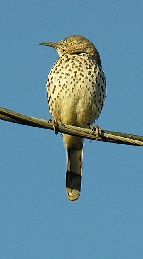 A bird of the Mimidae Family, found only in Baja California. Photo from near the town of Todos Santos.